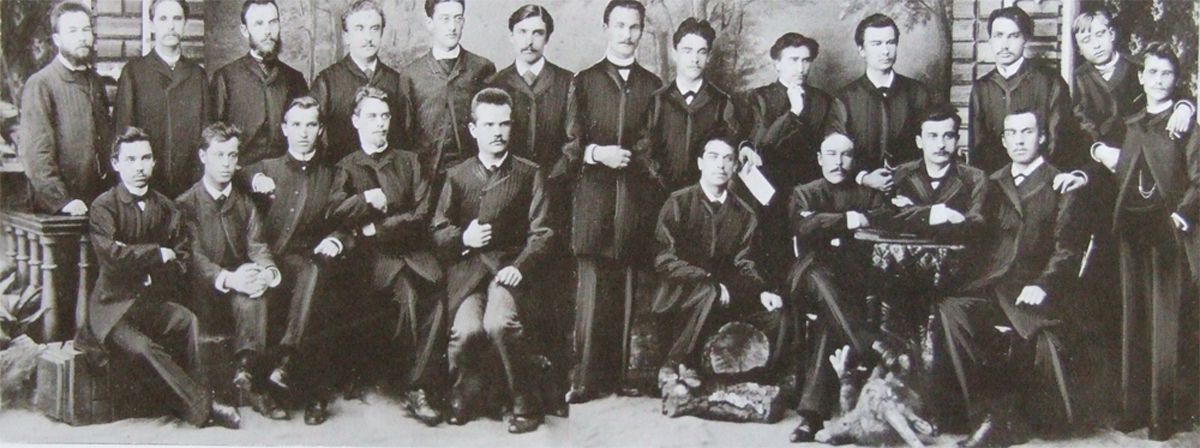 Secret Lithuanian student organization functioned in Moscow's University between 1880-1910.